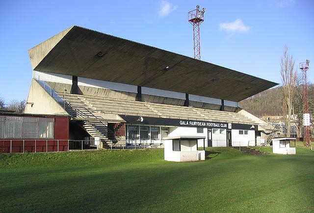 The home ground of Gala Fairydean F.C., Tweedbank, by Galashiels, Scottish Borders. Founded in 1907, Gala Fairydean Football Club play their home matches at Netherdale in the East of Scotland Football League. This board-marked concrete stand, designed by Peter Womersley, has recently been awarded listed building status by Historic Scotland. The stand has a capacity of 500 and was officially opened in 1964 with a game against East Fife. The stand is at the edge of the square but the shot was taken from just outside the square, and therefore may be deemed to be a supplemental image. For more information on the history of the club